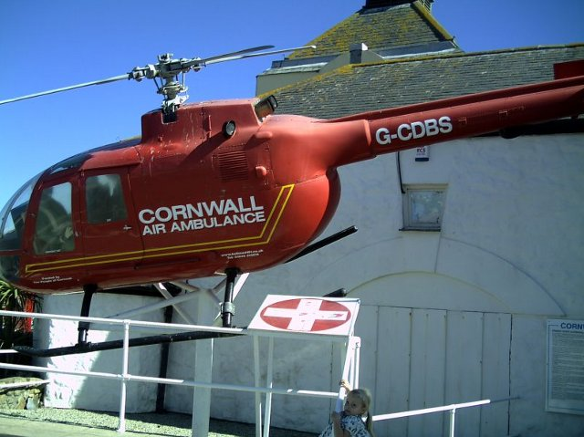 Helicopter